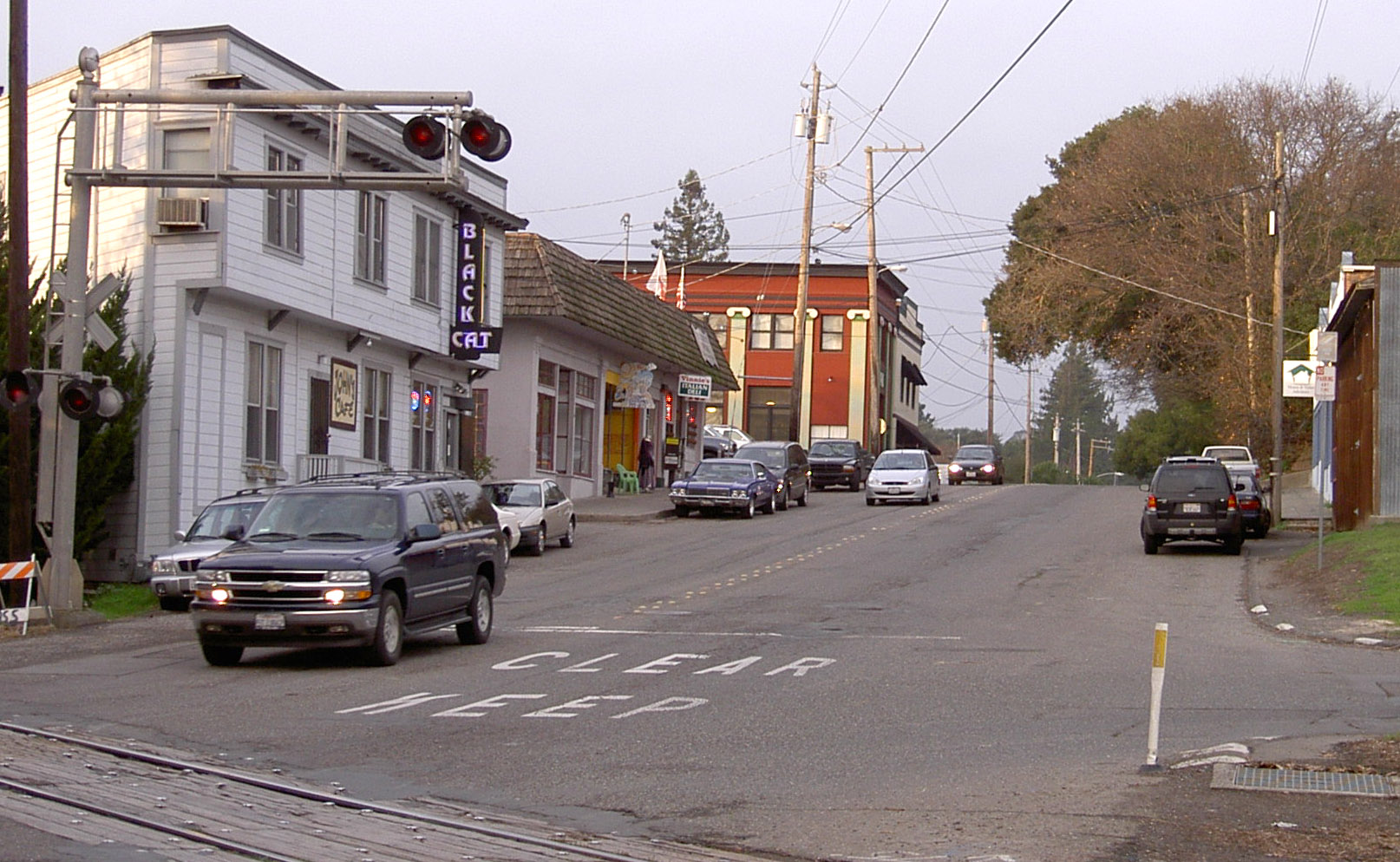 Main Street in Penngrove, looking north from the railroad crossing